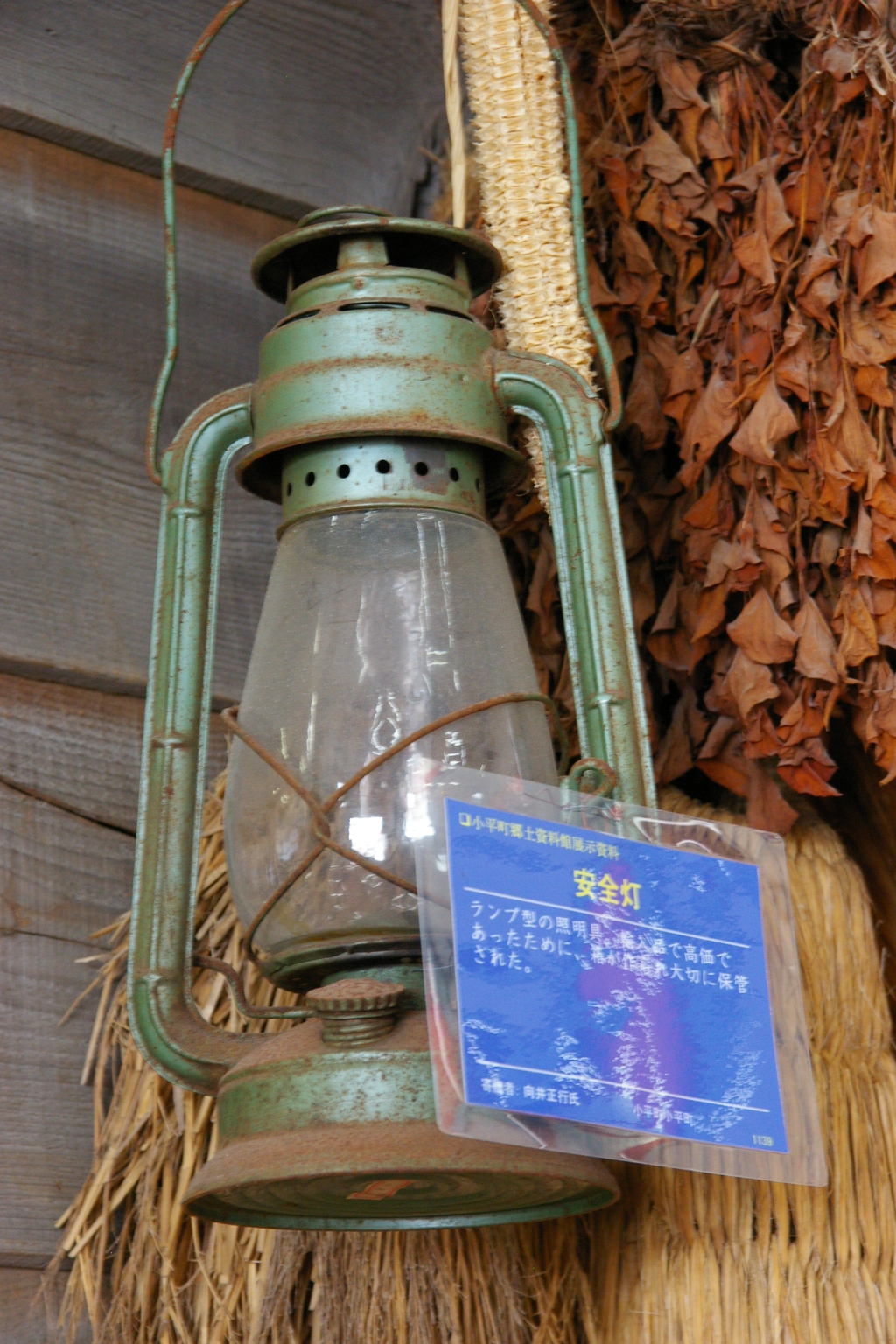 Kerosene lamp displayed at the Obira Town Local History Museum, Hokkaido, Japan